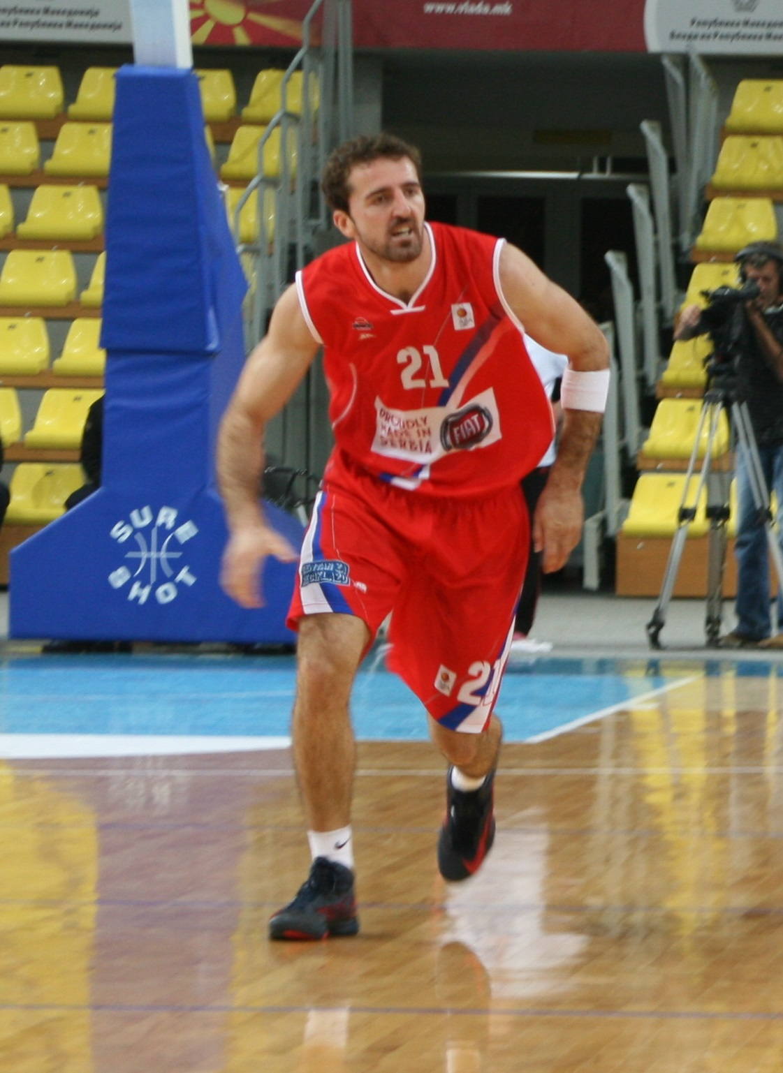 Krstović